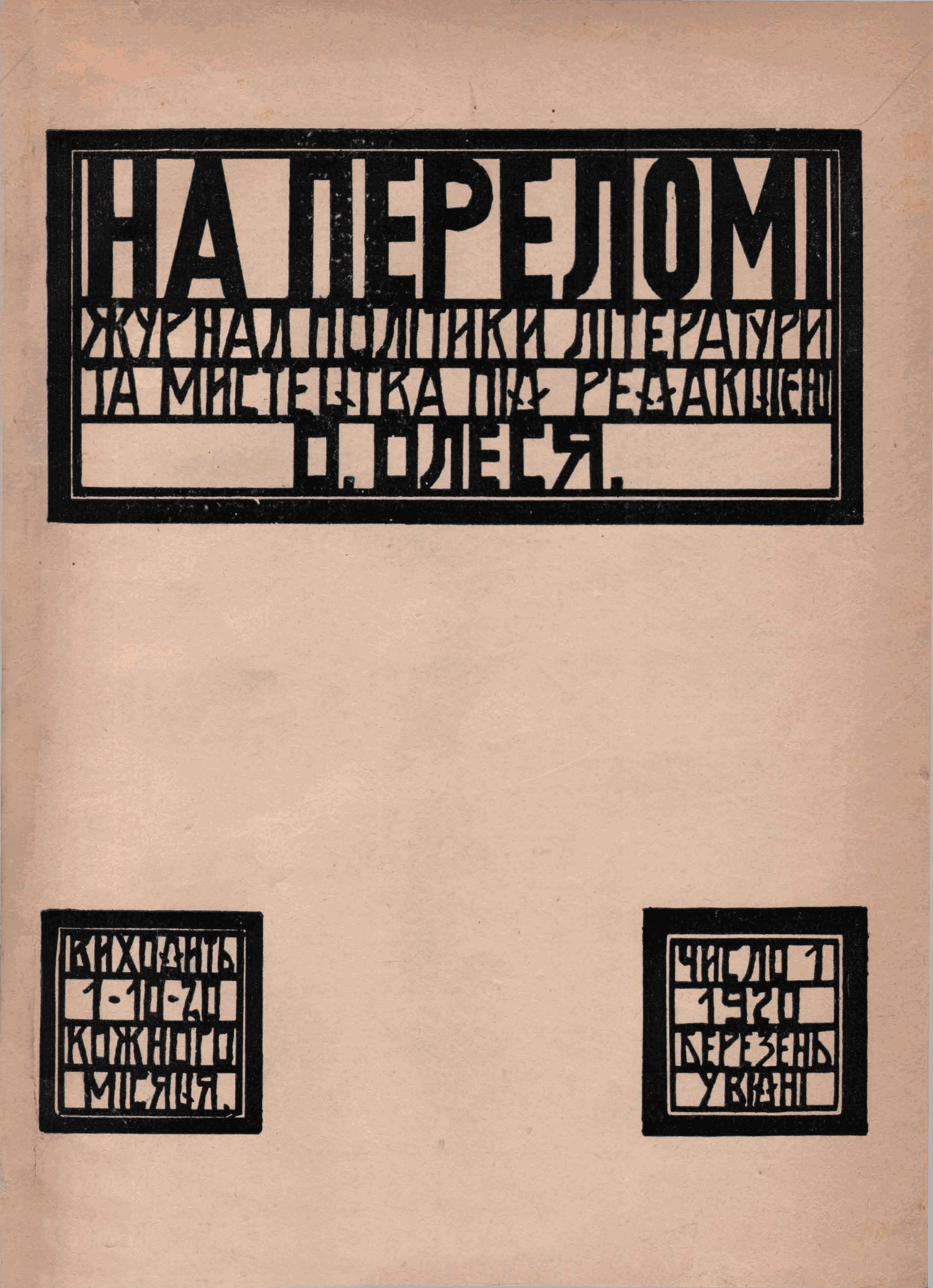 Cover of Ukrainian-language magazine «На Переломі»